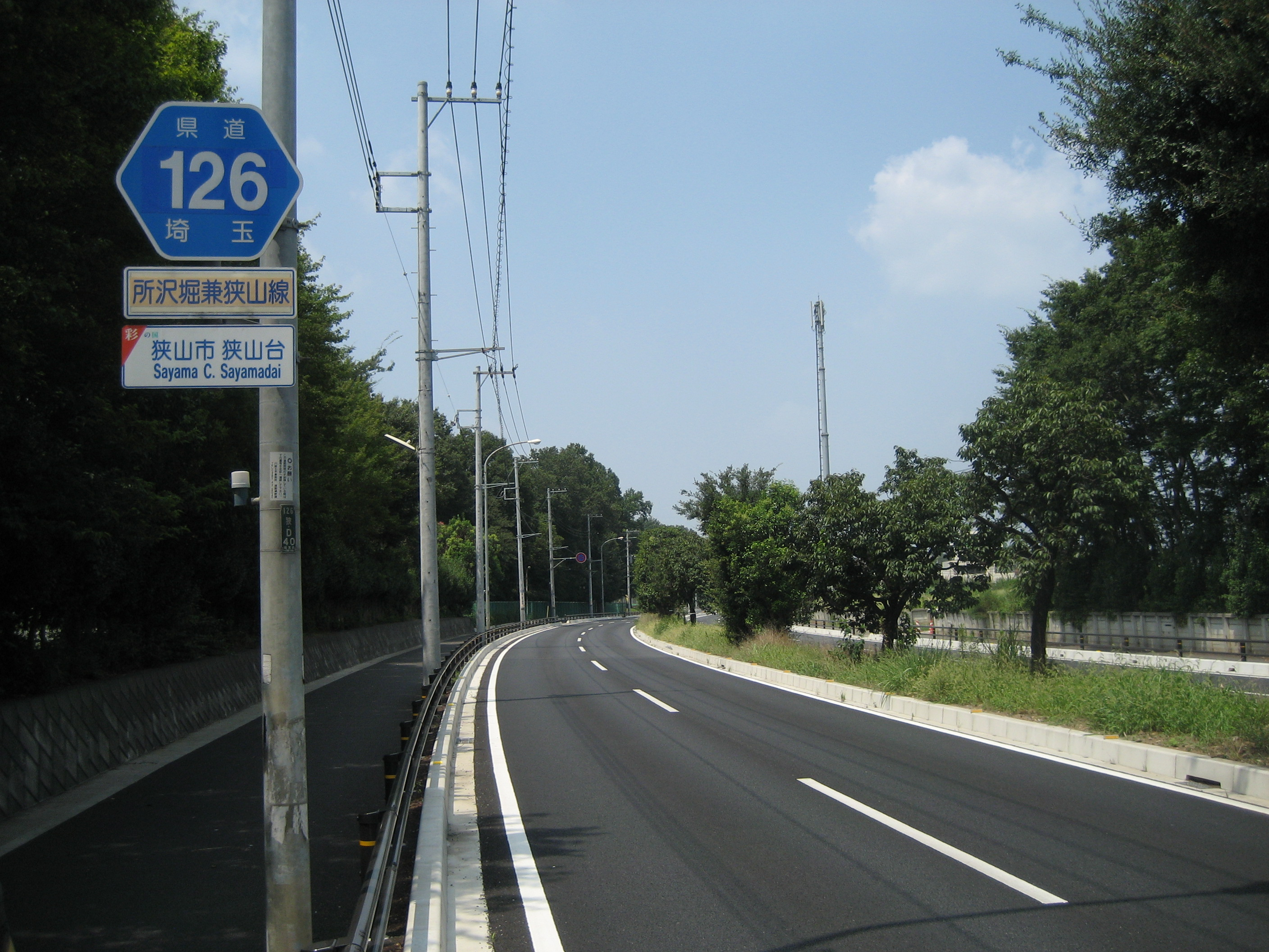 The Saitama Prefectural Road Route 126 in Sayamadai, Sayama City